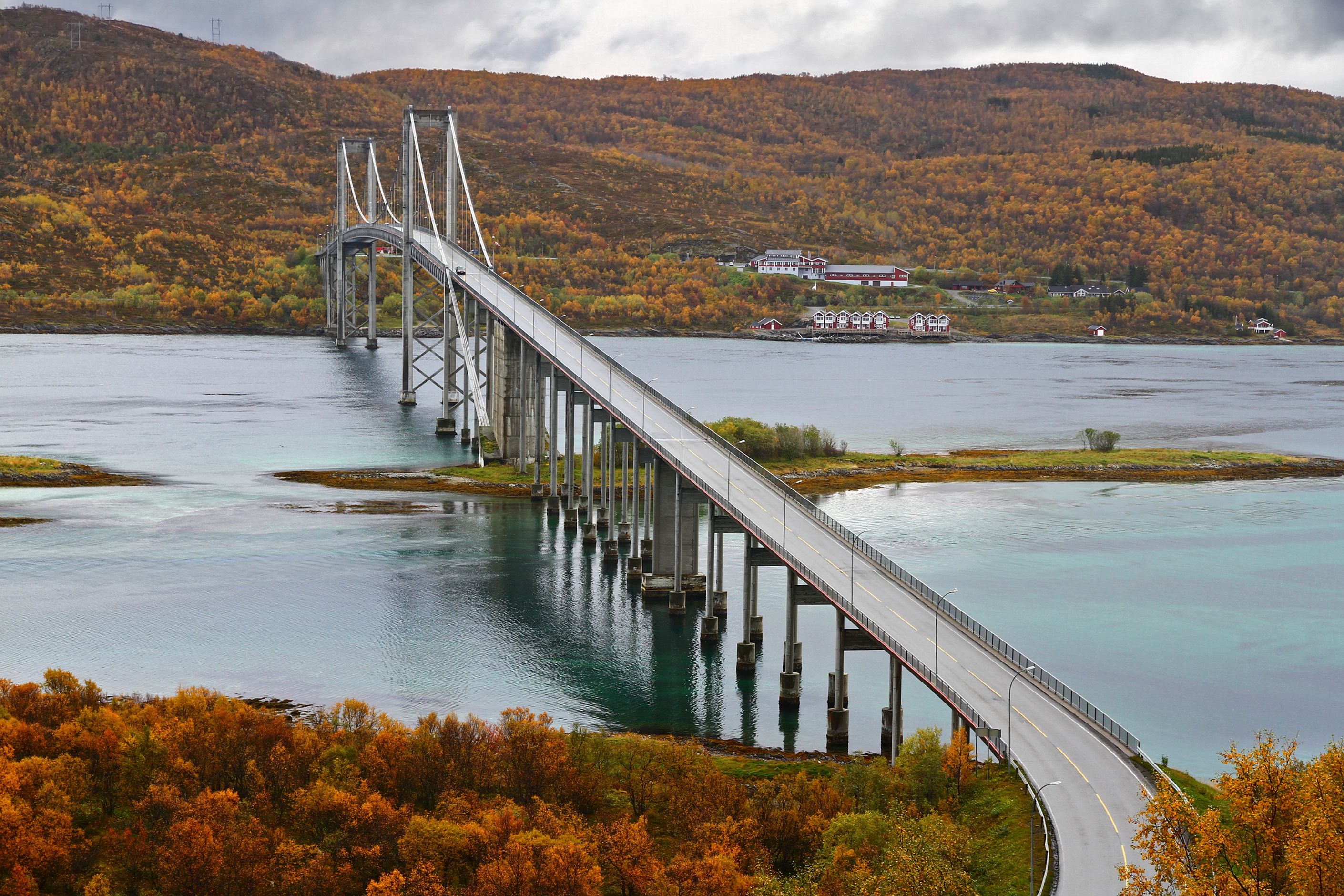 Tjeldsund Bridge over Tjeldsundet as seen from the Hinnøya side in 2010 September.